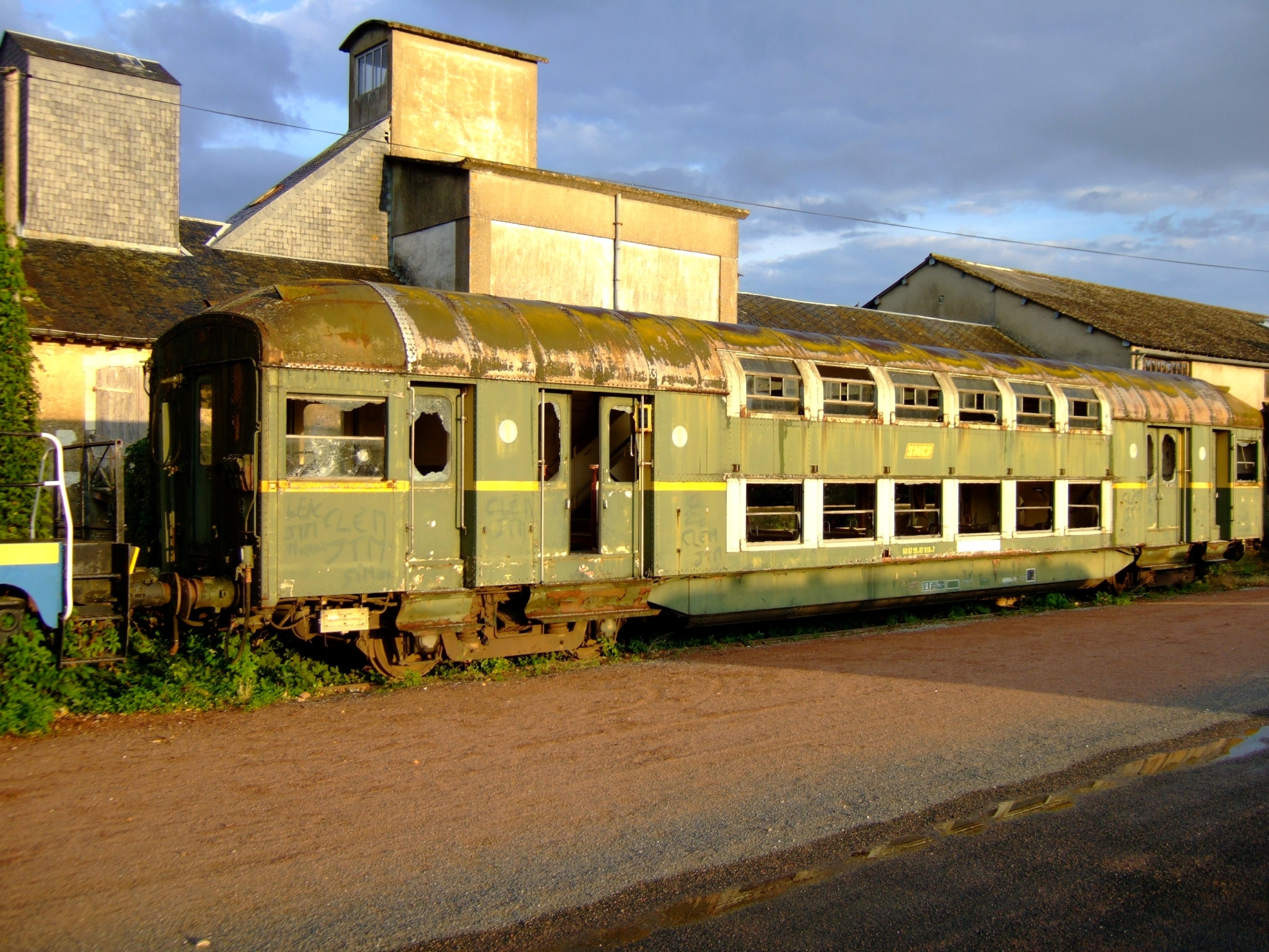 Old double-deck passenger car of ex Etat company (french rail). view took in Richelieu, France on dead TVT touristic railway.